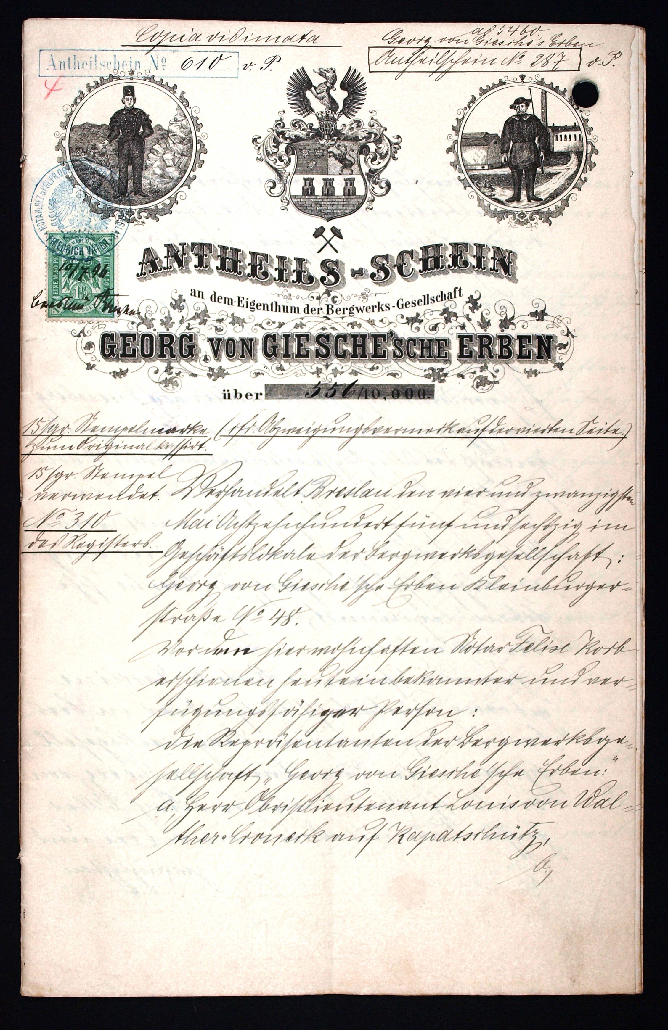 Share of the Bergwerks-Gesellschaft Georg von Giesche'sche Erben, issued 25. May 1865